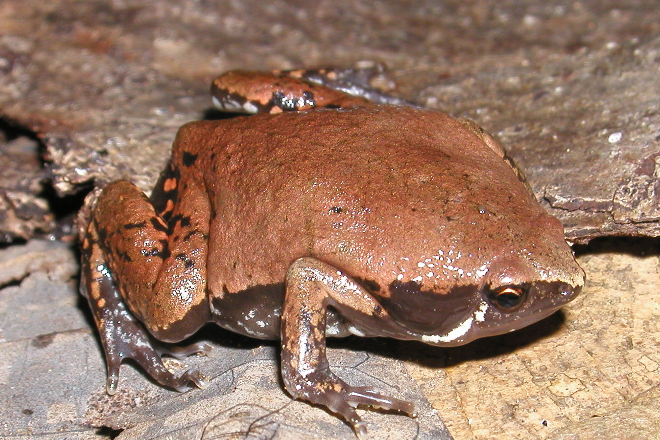 Hypopachus variolosus (Microhylidae), a frog from Palo Verde Biological Station, northwestern Costa Rica.Pstevendactylus 01:53, 17 February 2006 (UTC)